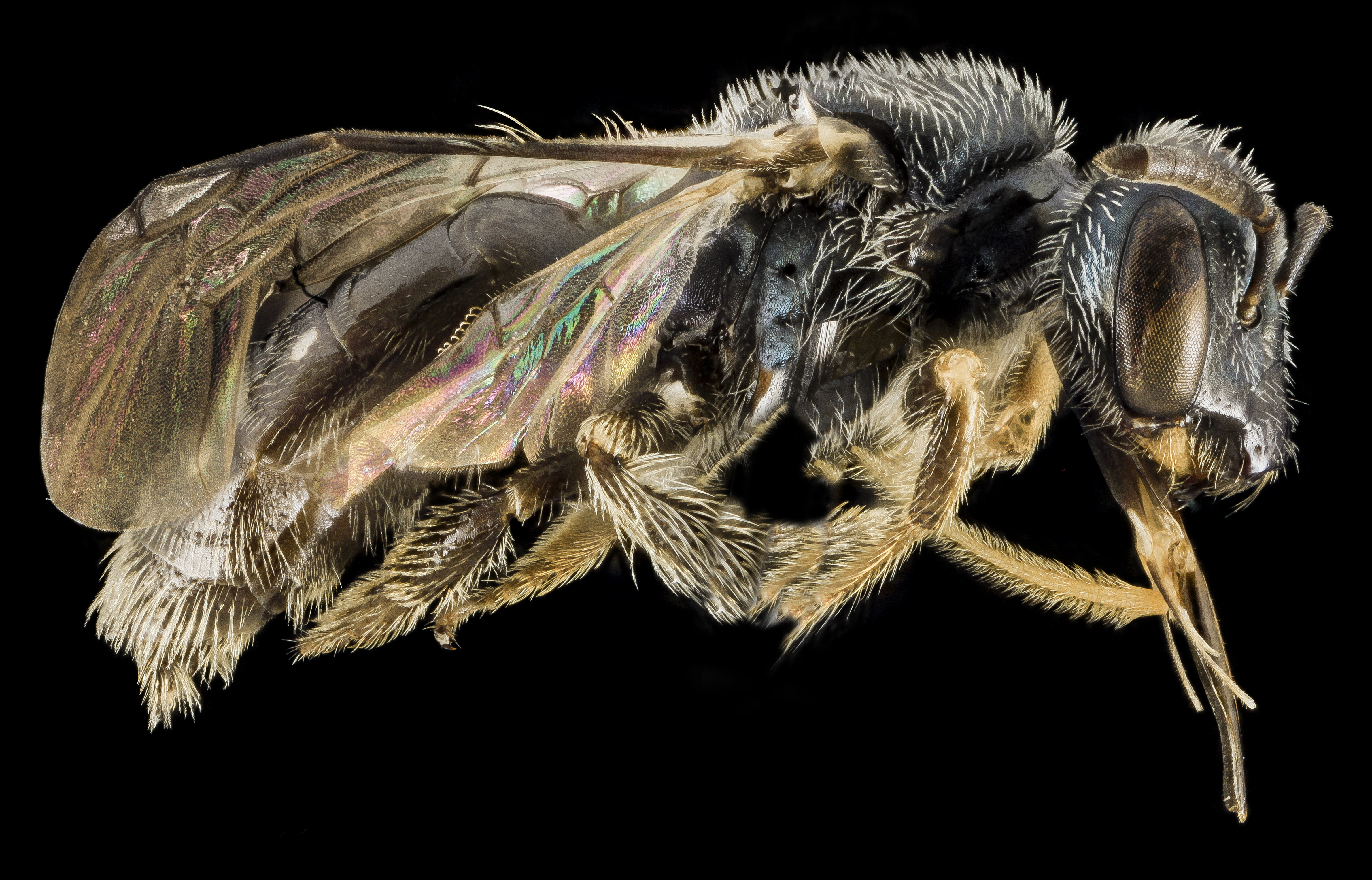 New Vermont Species Record. This little tiny bee is a specialist on a plant that most people pull out of their gardens, Physalis, or Ground Cherry, this plant has a number of specialists associated with it and, we should think about it as something to plant in our gardens! Anna Beauchemin is the finder of this new record and Brooke Alexander the photographer. Canon Mark II 5D, Zerene Stacker, Stackshot Sled, 65mm Canon MP-E 1-5X macro lens, Twin Macro Flash in Styrofoam Cooler, F5.0, ISO 100, Shutter Speed 200, link to a .pdf of our set up is located in our profile